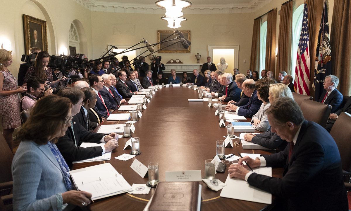 President Donald J. Trump holds a Cabinet meeting | August 16, 2018